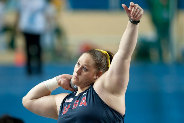 Jillian Camarena-Williams during 2012 IAAF World Indoor Championships in Istanbul